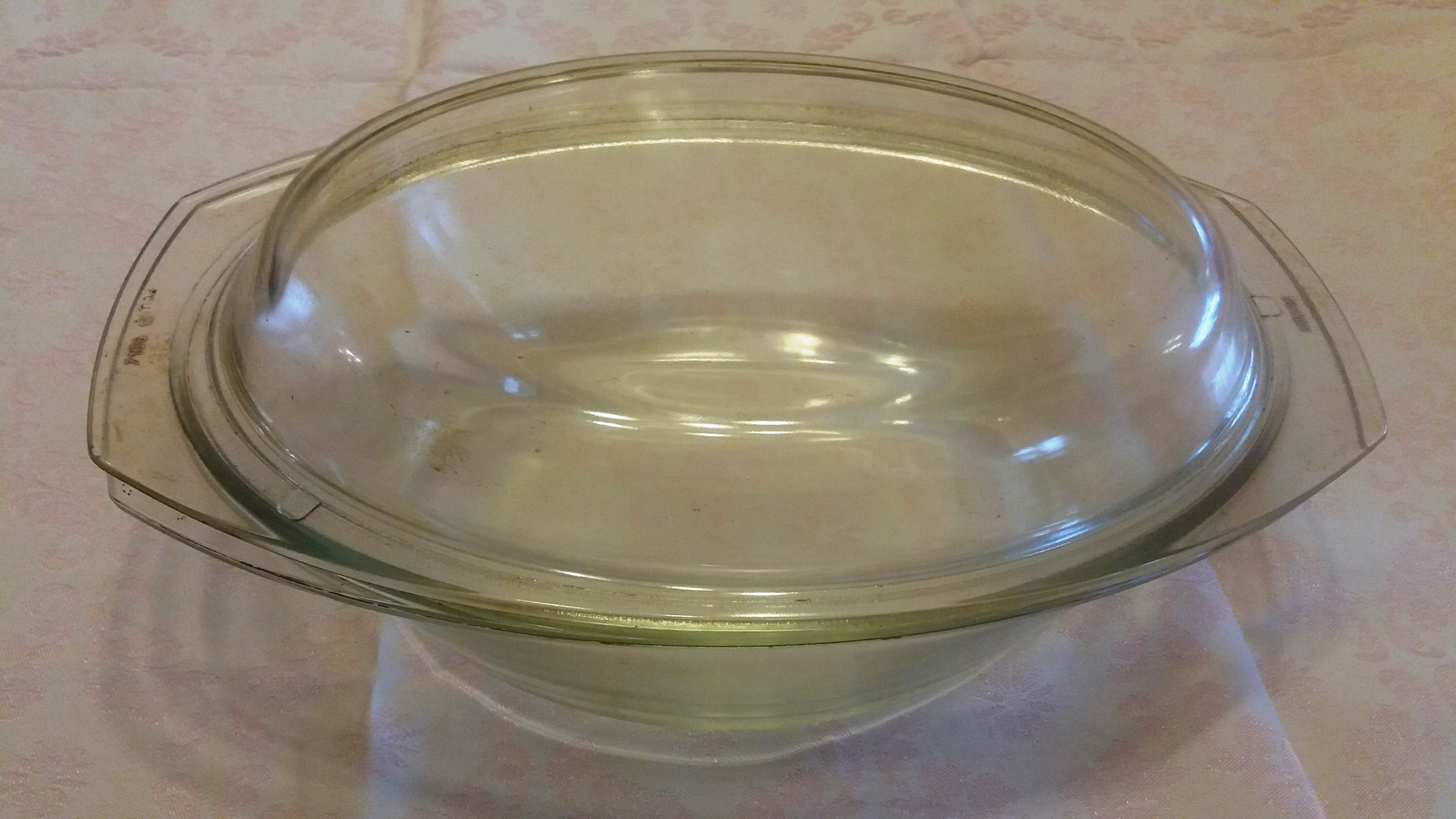 Glass baking dish with lid